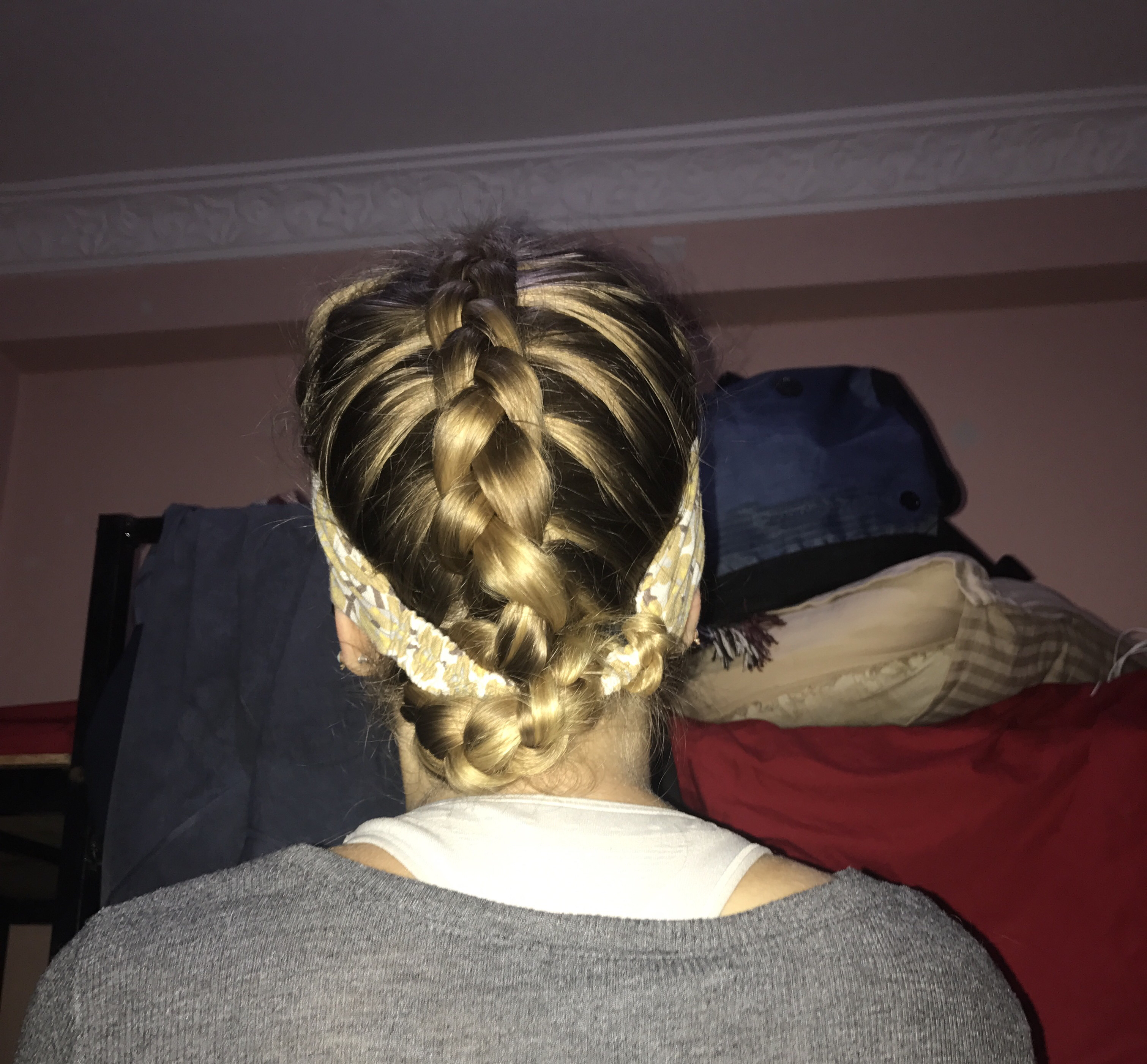 The image is a Dutch braid otherwise known as an inverted braid. It characteristically rests on top of the head instead of being underneath all of the other hair.